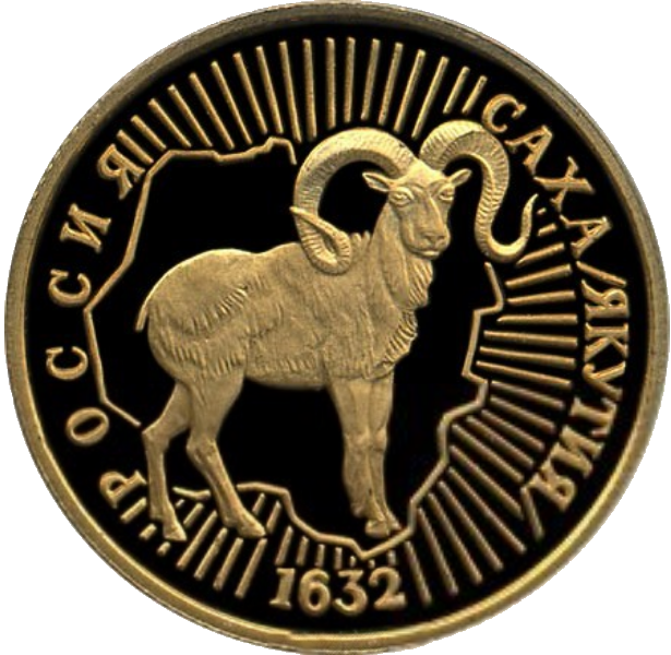 Commemorative coin - 350th anniversary of the voluntary entry of Yakutia into Russia